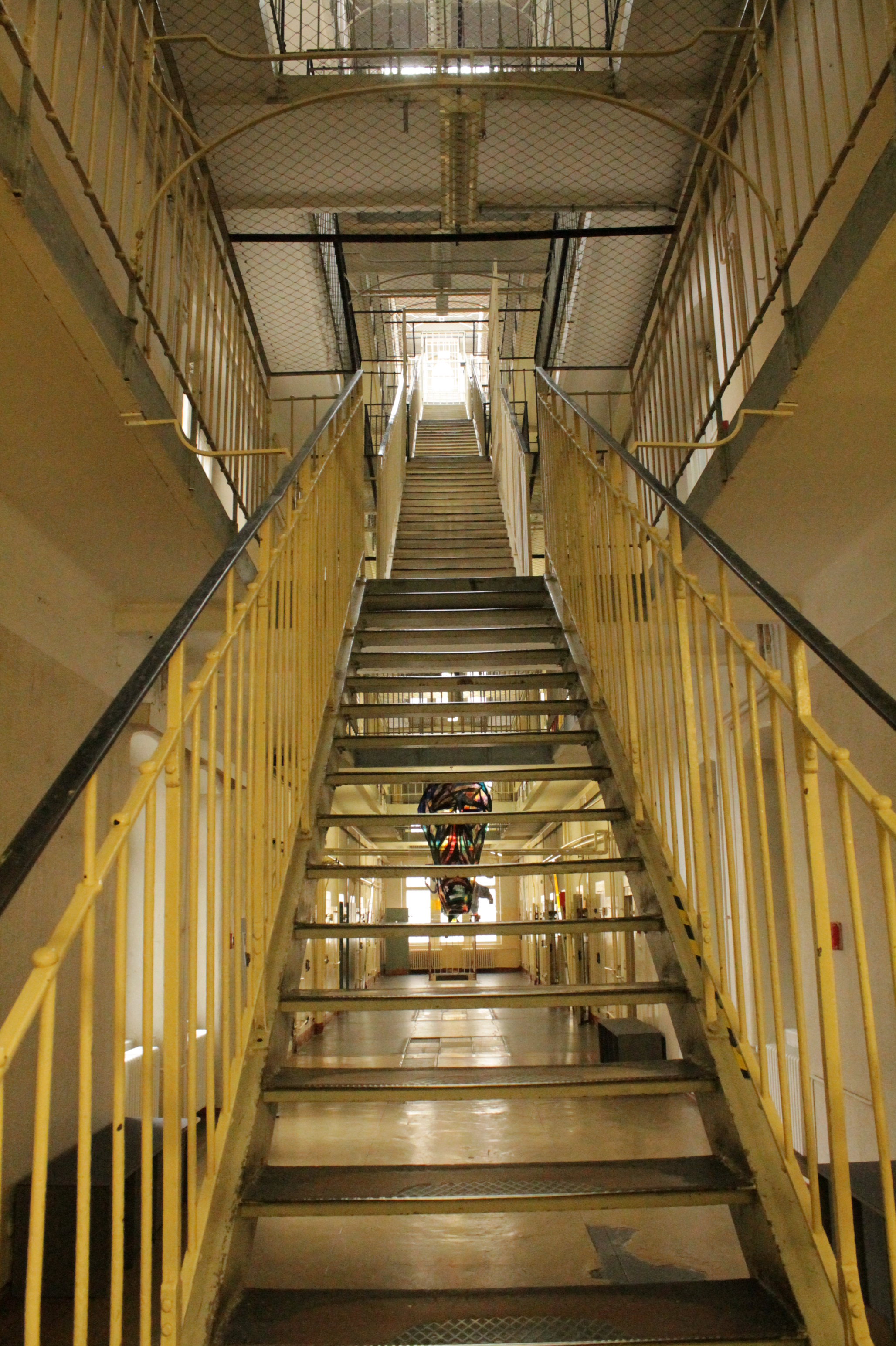 The central stair in Bautzen II